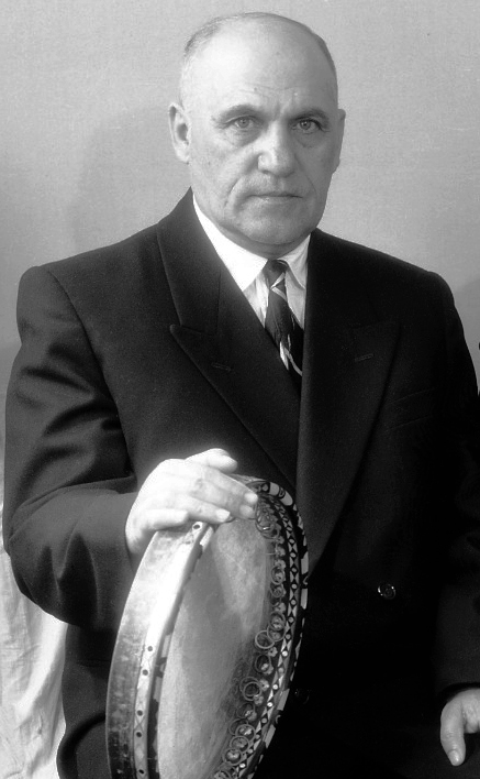 Zulfu Adigozelov - Azerbaijani singer